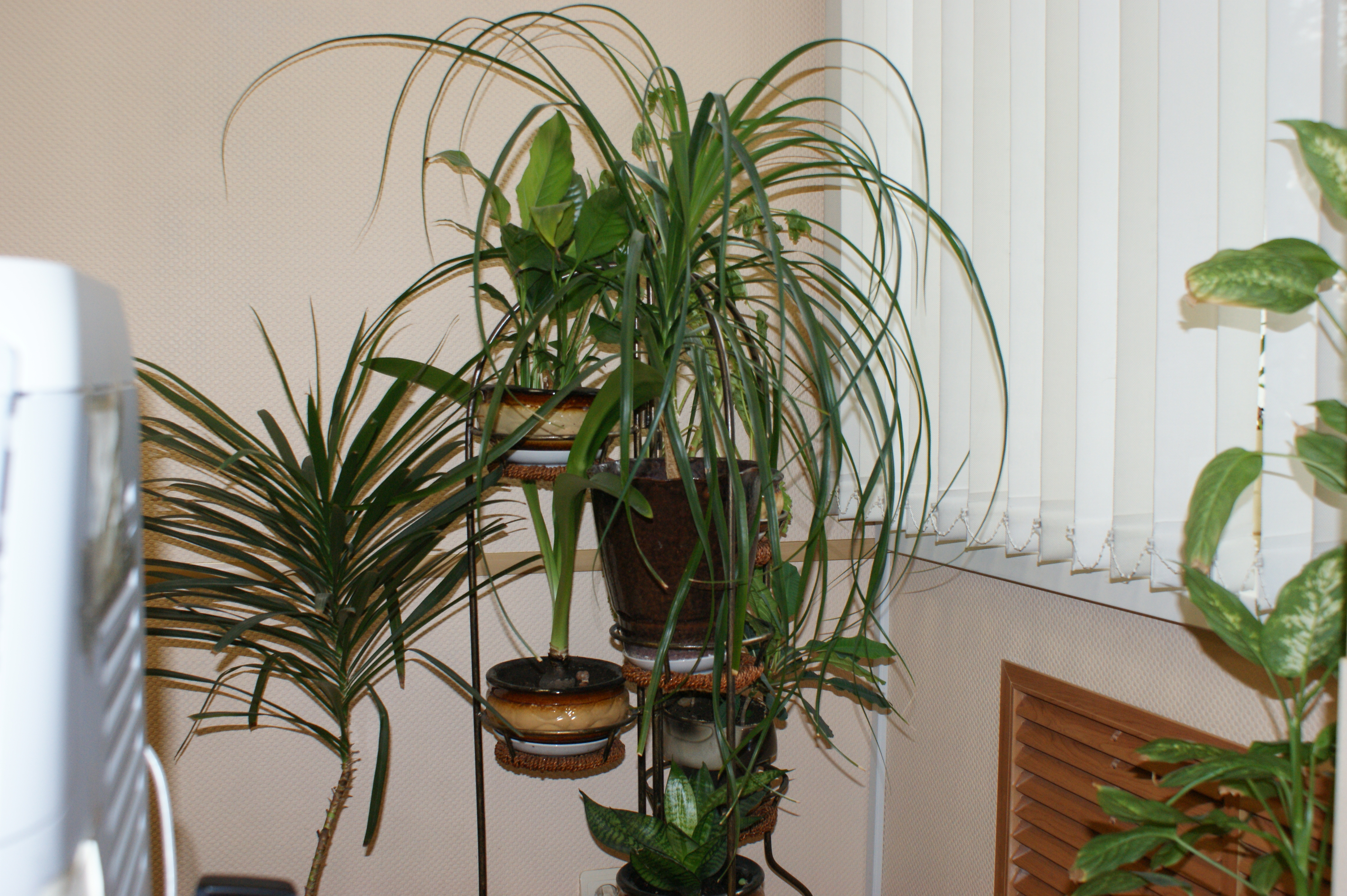 Houseplants in a room